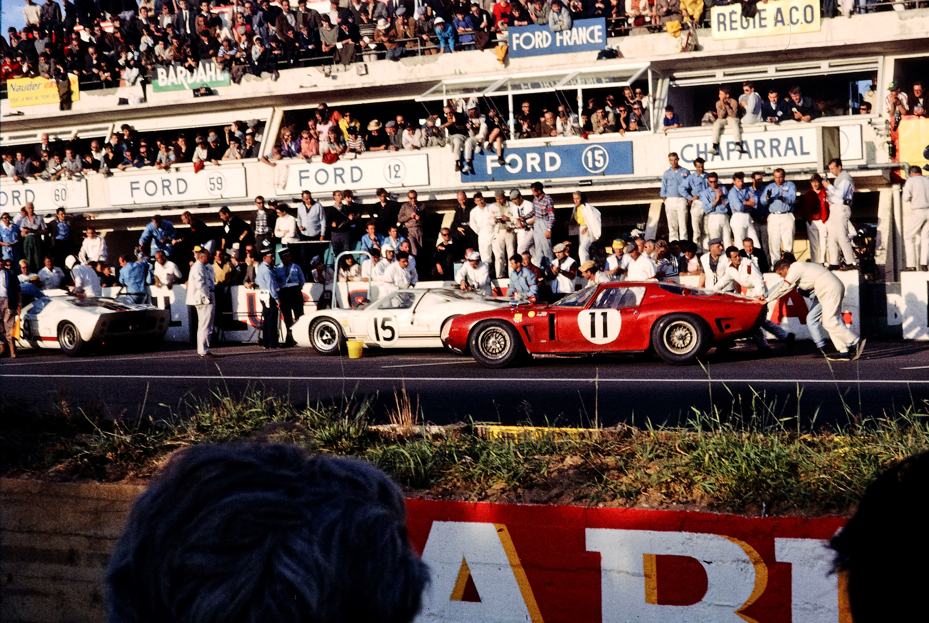 1966 24 Hours of Le Mans.